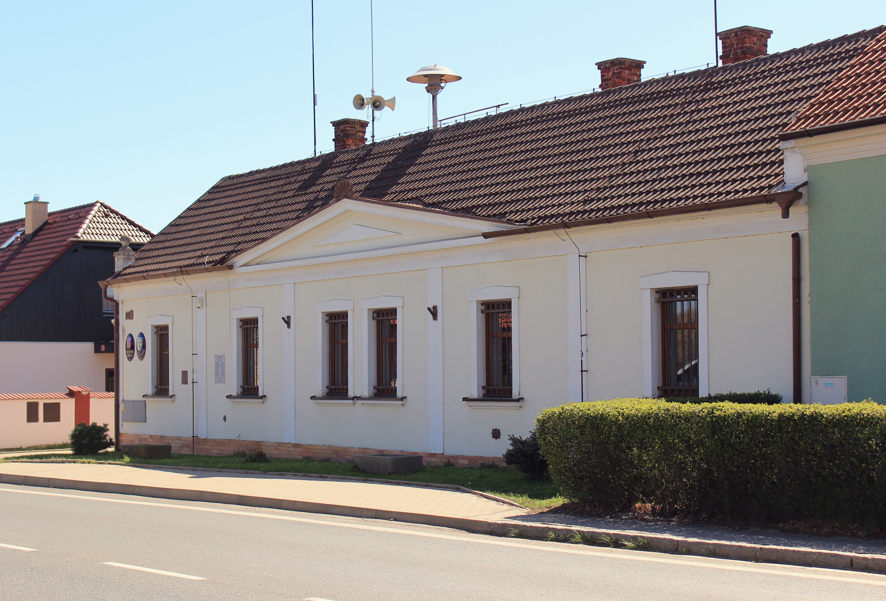 Municipal office in Kovanice, Czech Republic.